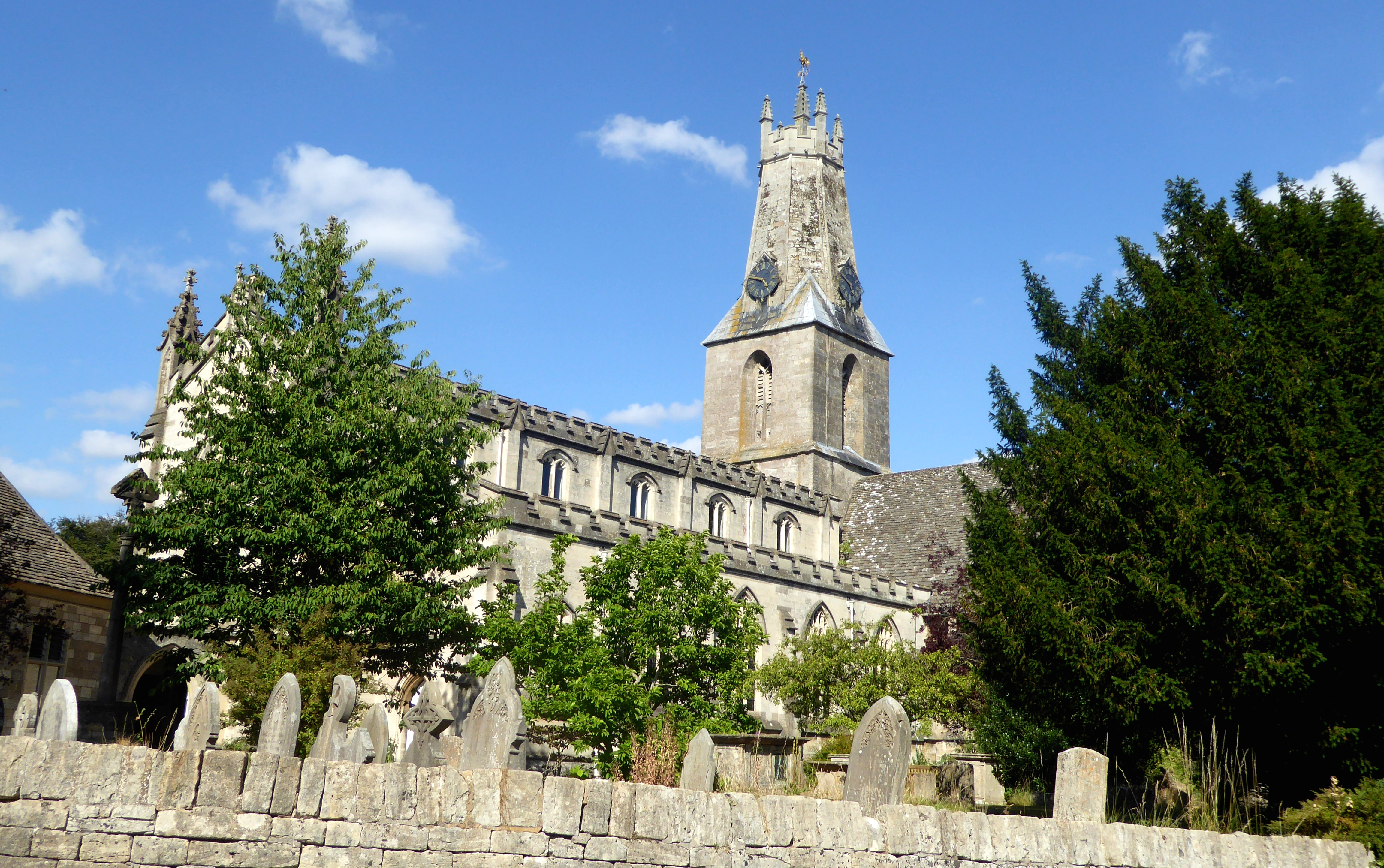 Holy Trinity Church as seen from Bell Lane in Minchinhampton.